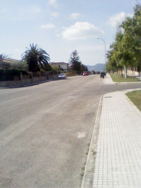 One of the streets of the village Pont d'Inca Nou, in the municipality of Marratxí, Balearic Islands, Spain.